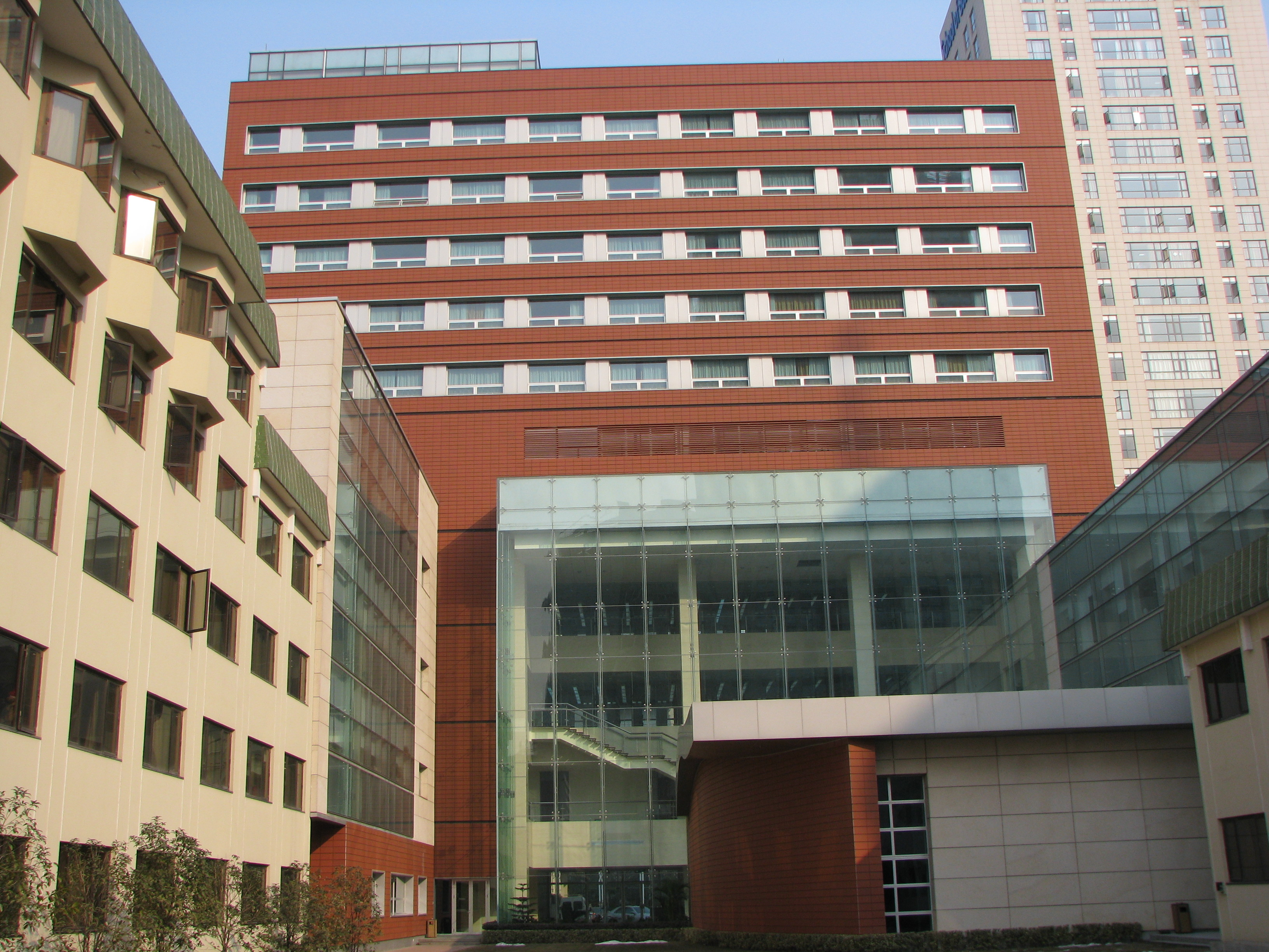 Photo of the Hopkins-Nanjing Center